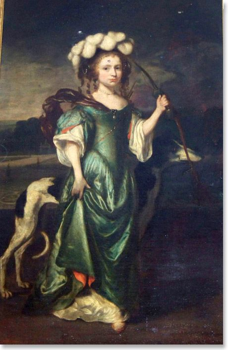 Princess Maria Anna Victoria of Savoy (1683-1763), "Mademoiselle de Soissons" as Diana the huntress